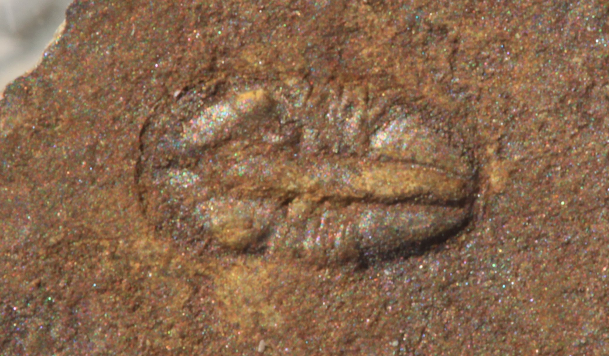 An eodiscid trilobite Pagetia taijiangensis, 6mm, from Kaili Guizhou China, Middle Cambrian